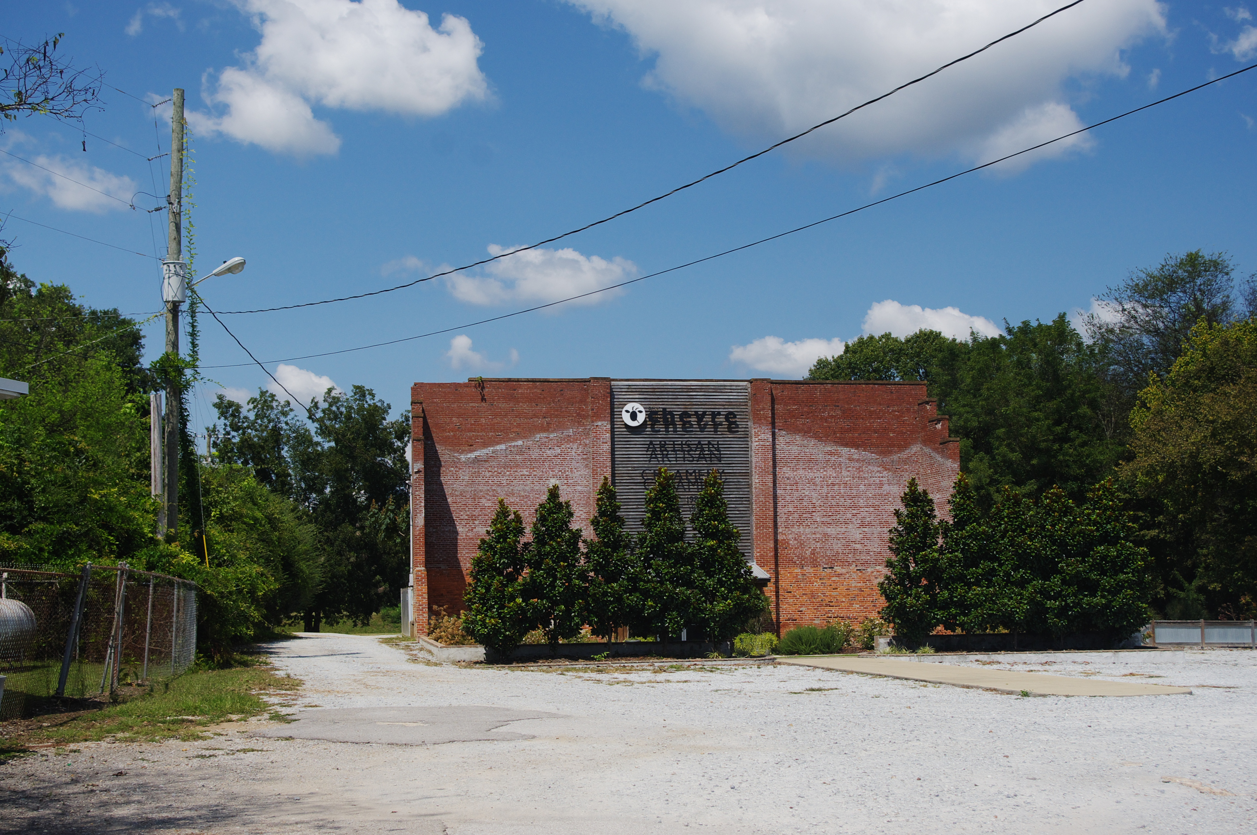 The Belle Chevre Creamery, an artisan goat cheese maker, in Elkmont, Alabama, United States.